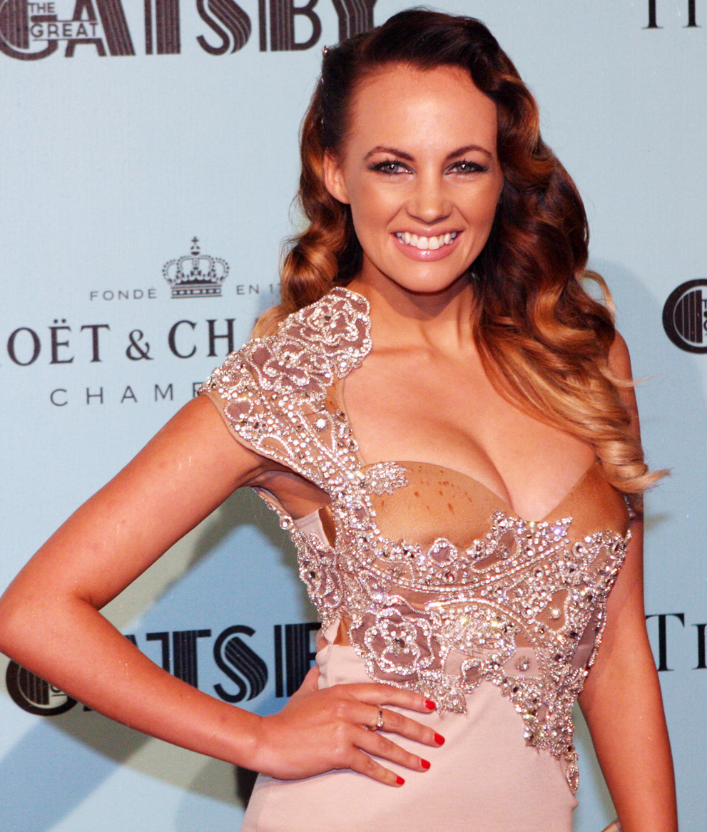 Samantha Jade at the The Great Gatsby Premiere Sydney Australia 2013.